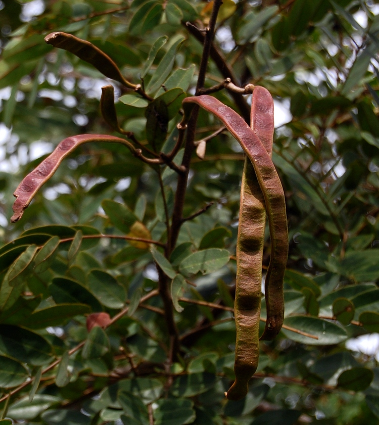 Senna siamea pods. Bogor, West Java, Indonesia.